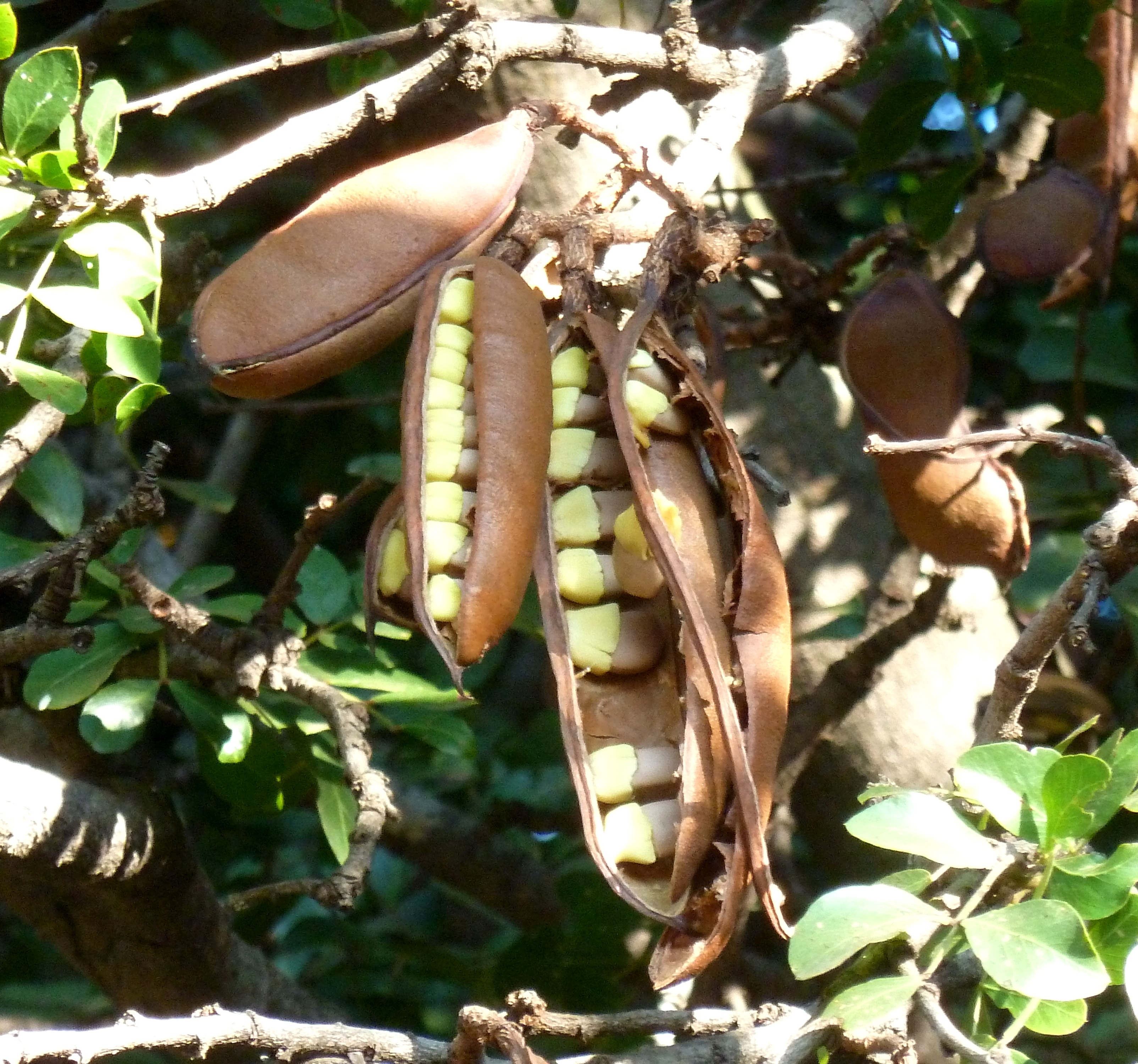 Dehisced seed pods of a Weeping boer-bean. The valves have opened, revealing rows of pale brown seeds still attached to their placentas. Each seed has a yellow, basal, cup-shaped aril, which is initially fairly hard. The seeds themselves are said to be edible when roasted.